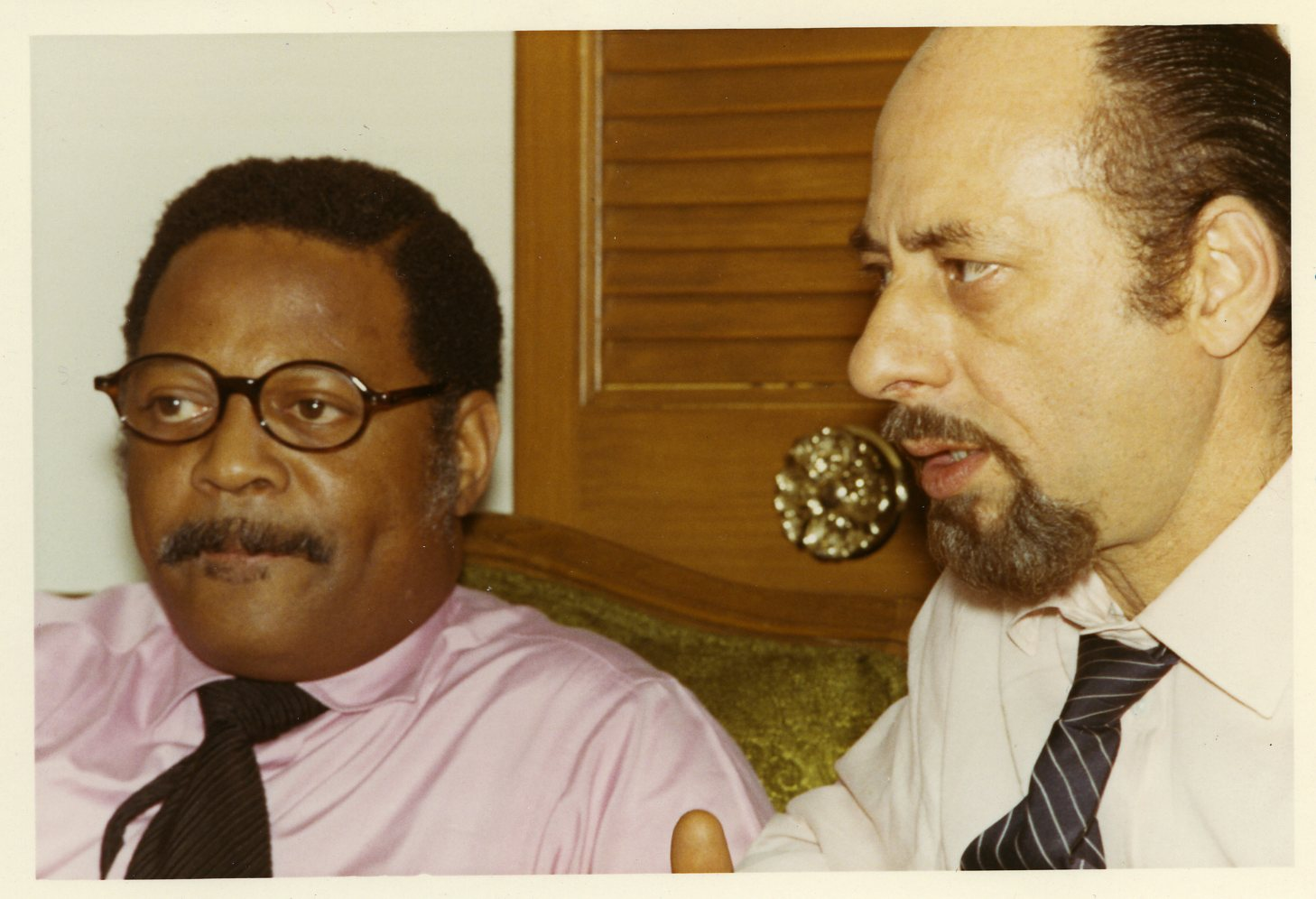 Mousey Alexander and Clark Terry sitting together after a gig in Chicago in December of 1970.